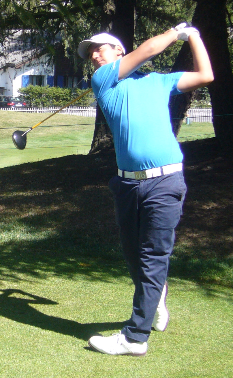 Matteo Manassero, Italian amateur, in Crans on 4th tee.